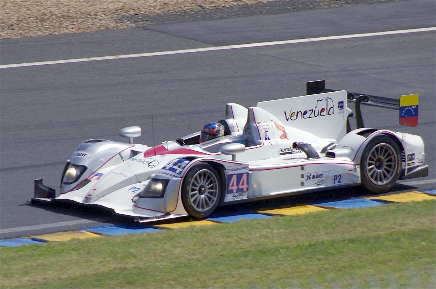 LMP2 class winner, Le Mans 24 Hours 2012